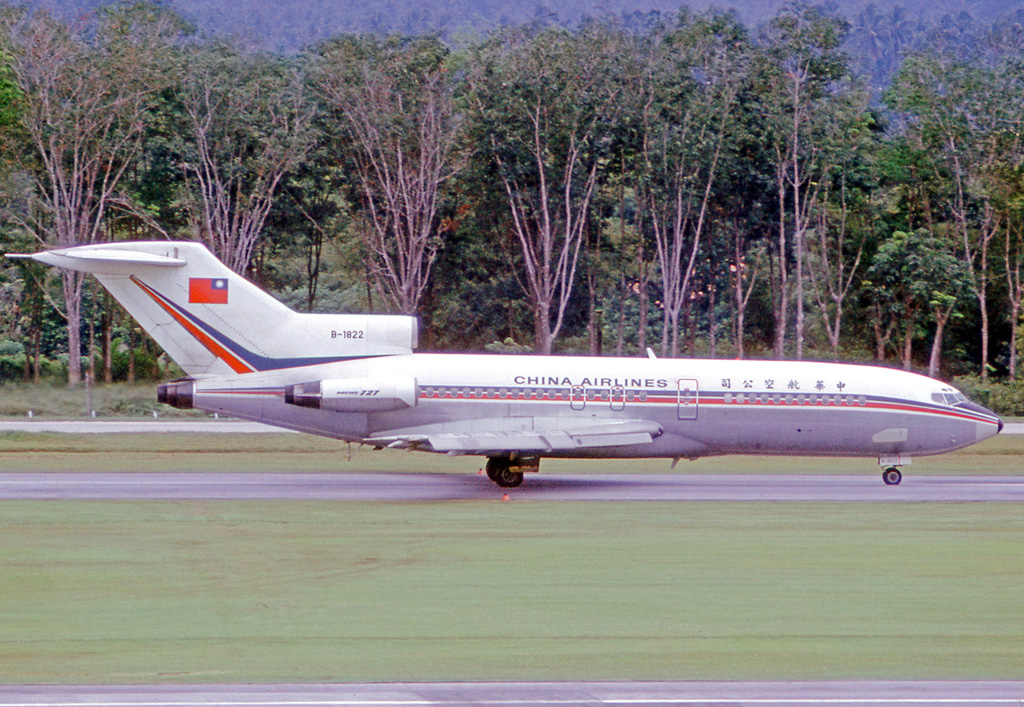 Boeing 727-109C B-1822 of China Airlines at Singapore Airport in 1974